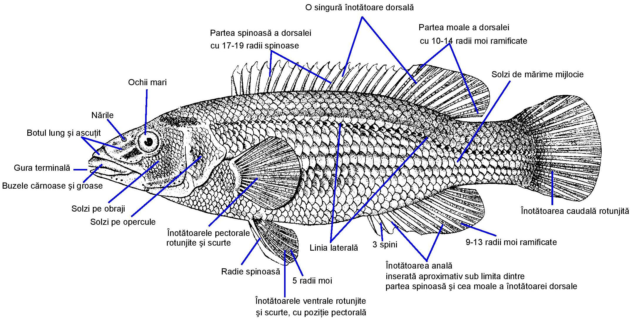 Labrus viridis